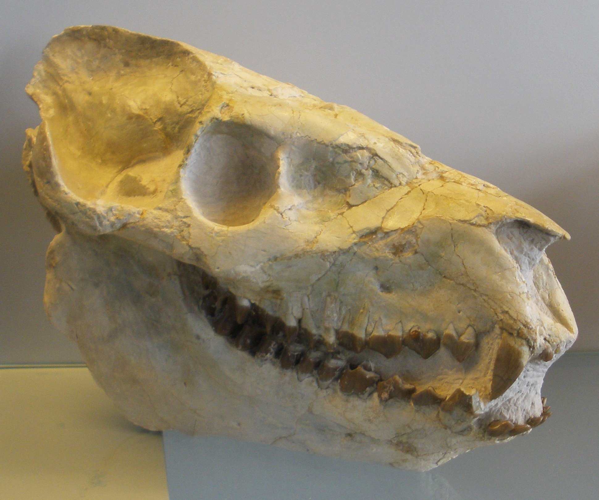 fossil of Eporeodon